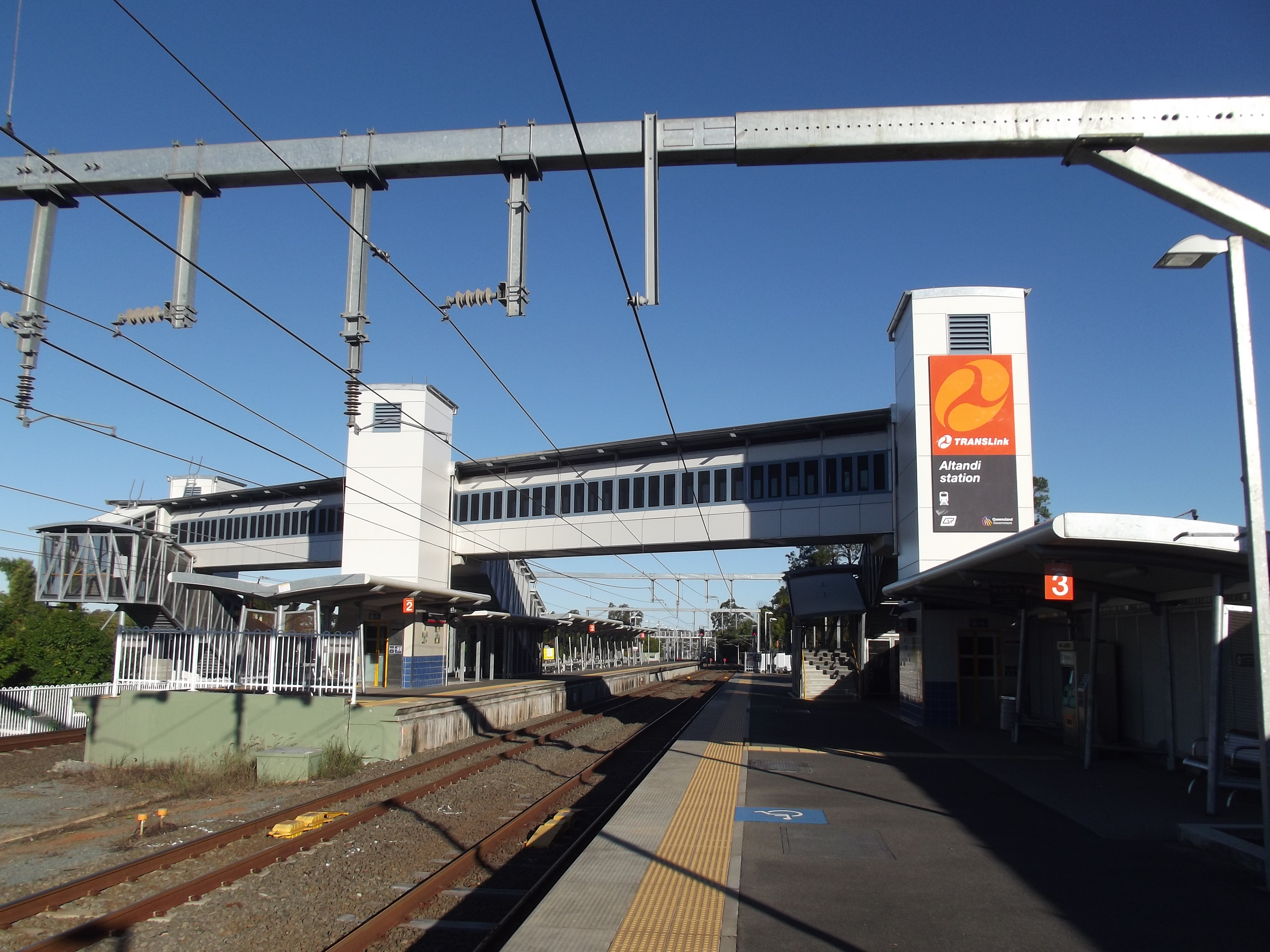 A photo of the Altandi railway station, operated by TransLink, located in Brisbane, Queensland.